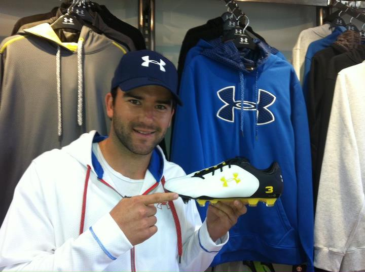 Jordan Lewis is an Under Armour ambassador